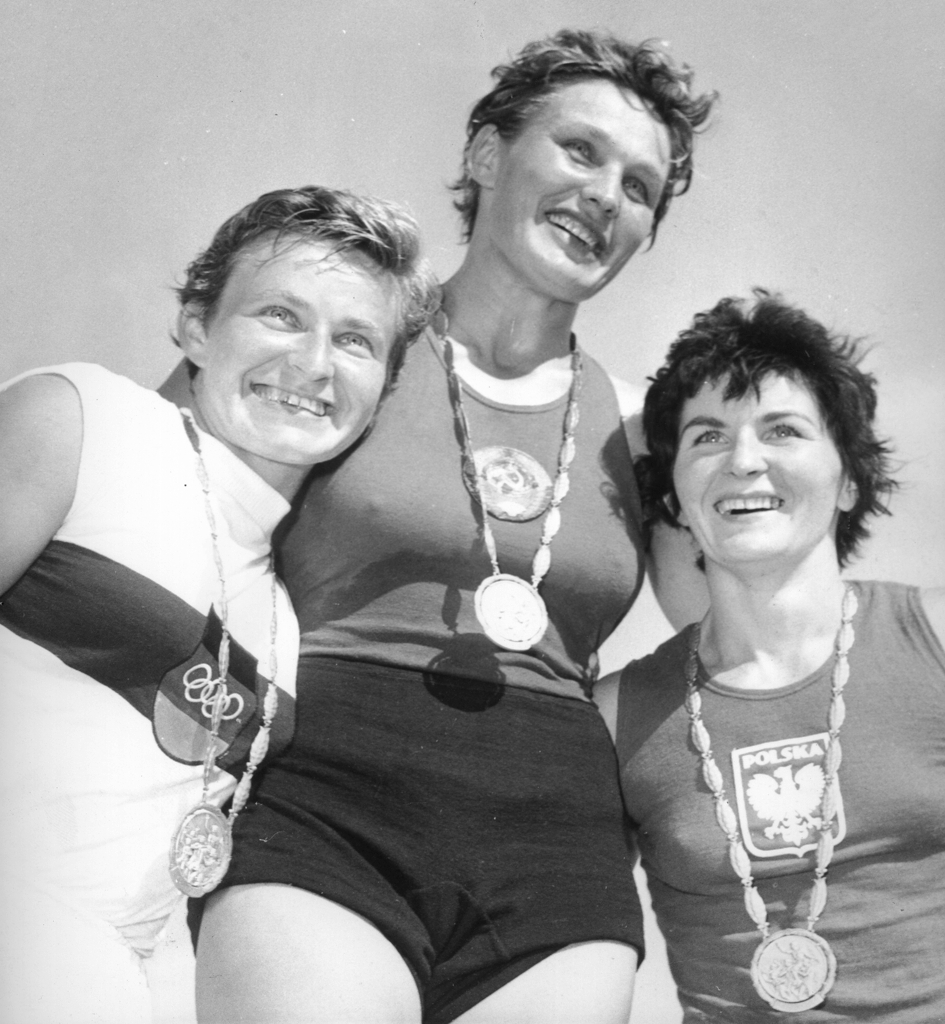 Left-right: Therese Zenz, Antonina Seredina, Daniela Walkowiak-Pilecka at the 1960 Olympics